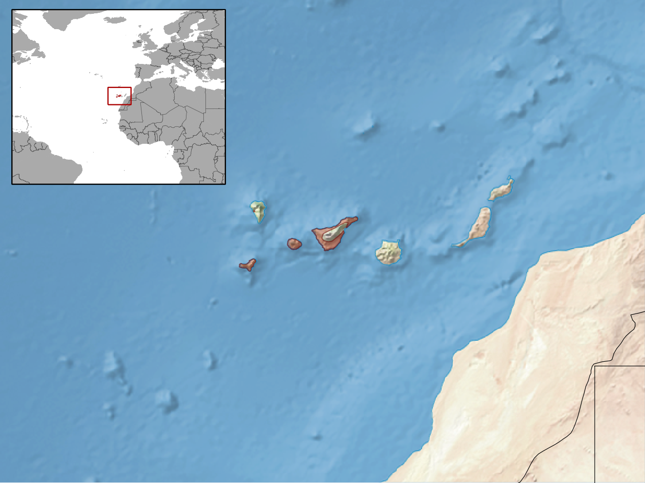 geographic distribution of Chalcides viridanus